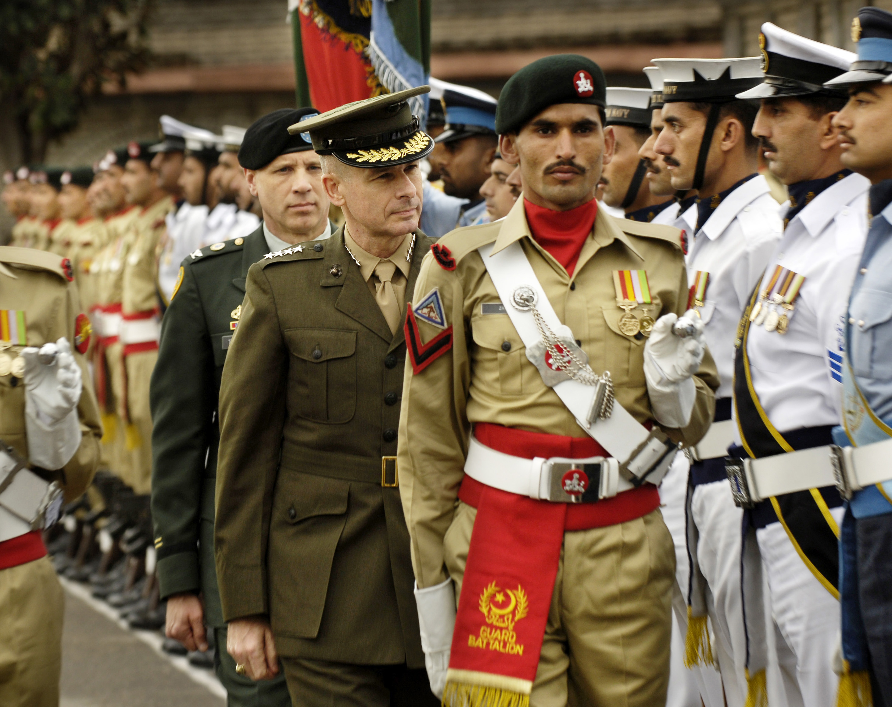 Chairman of the Joint Chiefs of Staff Gen. Peter Pace (center), U.S. Marine Corps, reviews the Pakistani Honor Guard upon his arrival at the Joint Forces Command in Islamabad, Pakistan, on March 20, 2006. Pace is in Islamabad to meet with his Pakistani counterpart Gen. Ehsan Ul Haq. Pace will later visit with American servicemembers who deployed to Pakistan for humanitarian relief efforts following the October 2005 earthquake near Muzaffarabad that killed an estimated 75,000 Pakistanis.